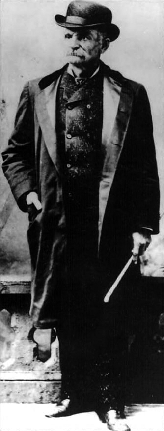 Black Bart, American stagecoach robber